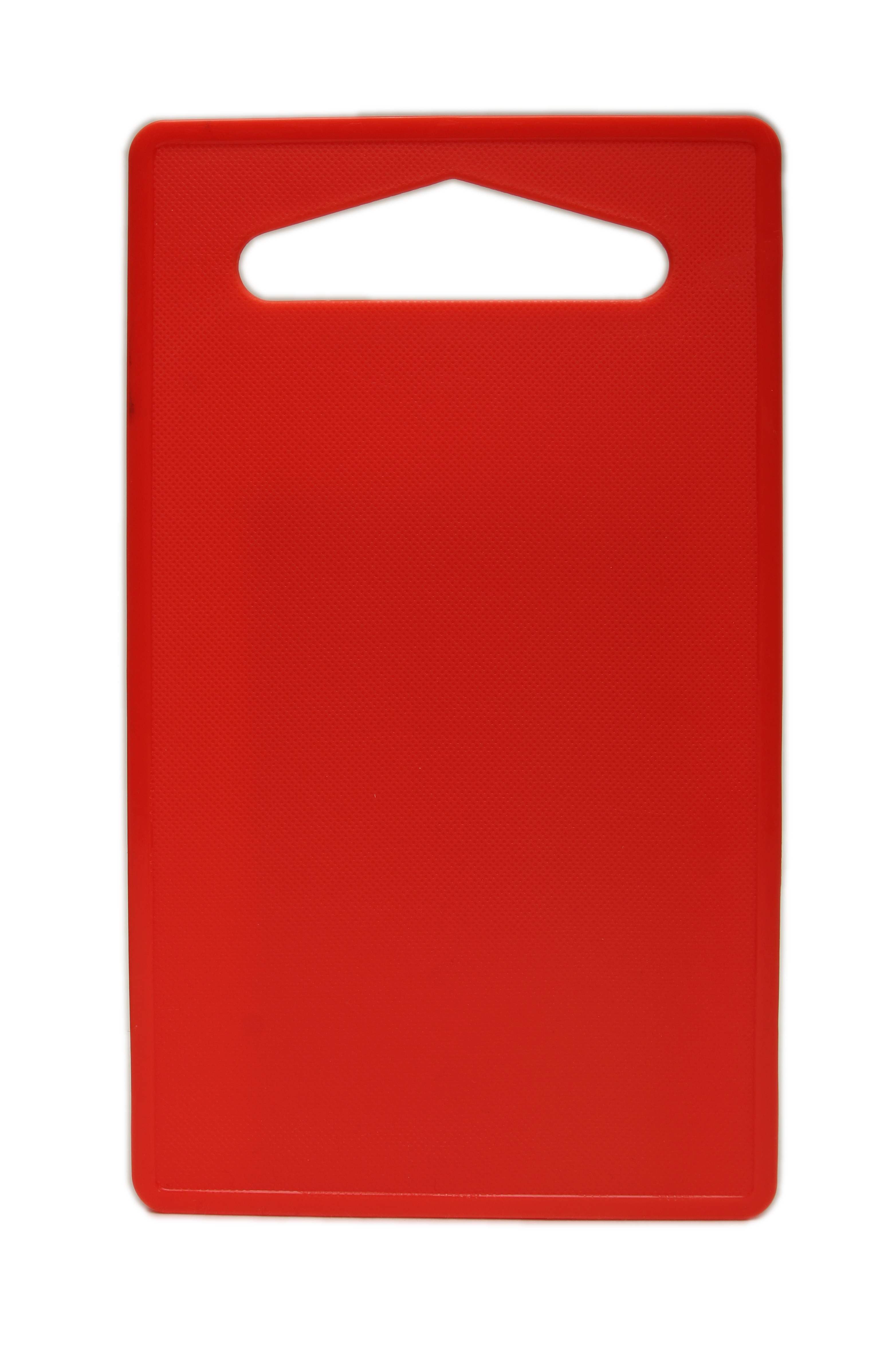 Planche à découper 24x15 cm rouge.